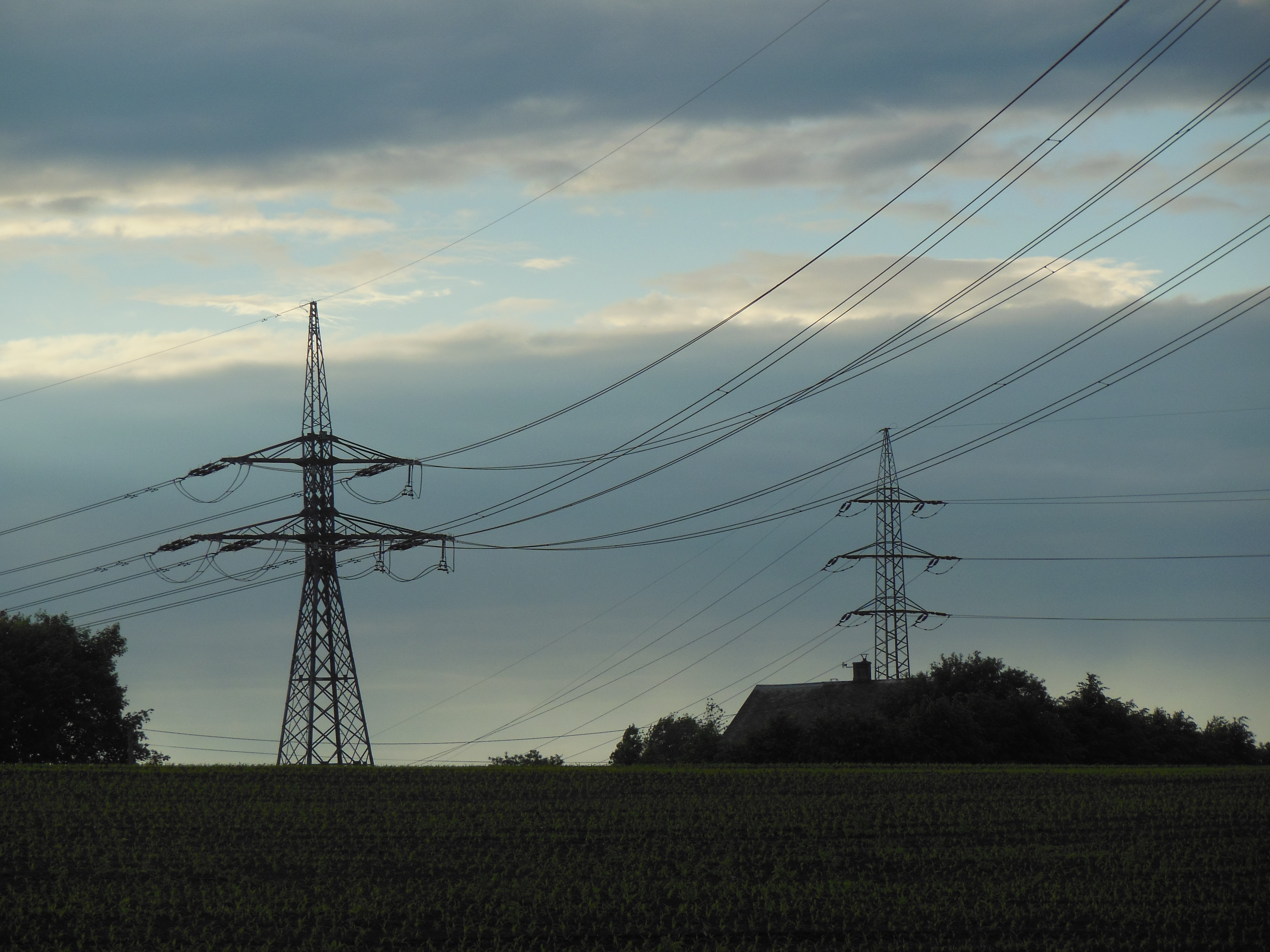 Horní Suchá - part Paseky, High-voltage overhead power lines